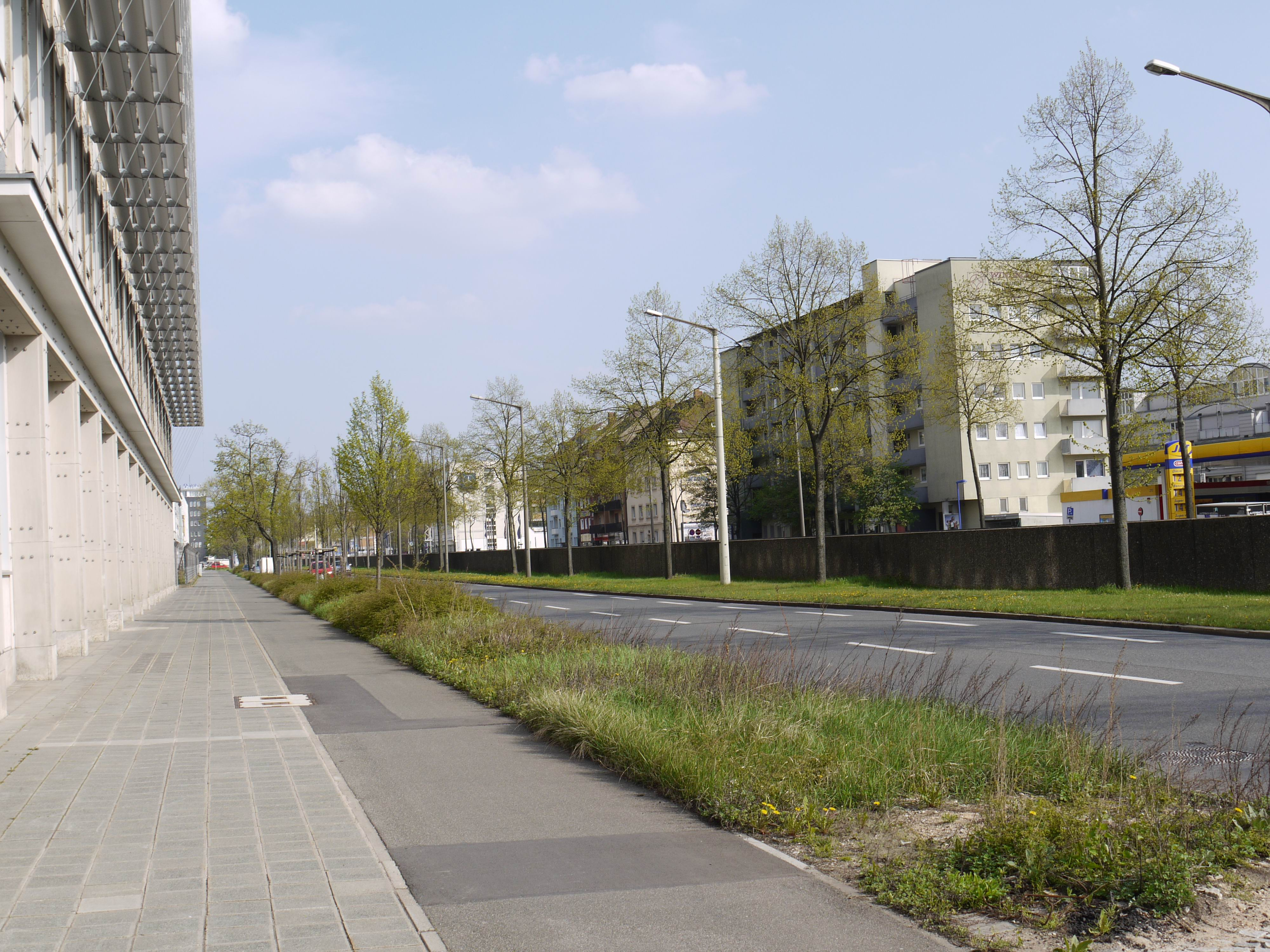 Fürther Straße in Nuremberg. AEG on the left hand side